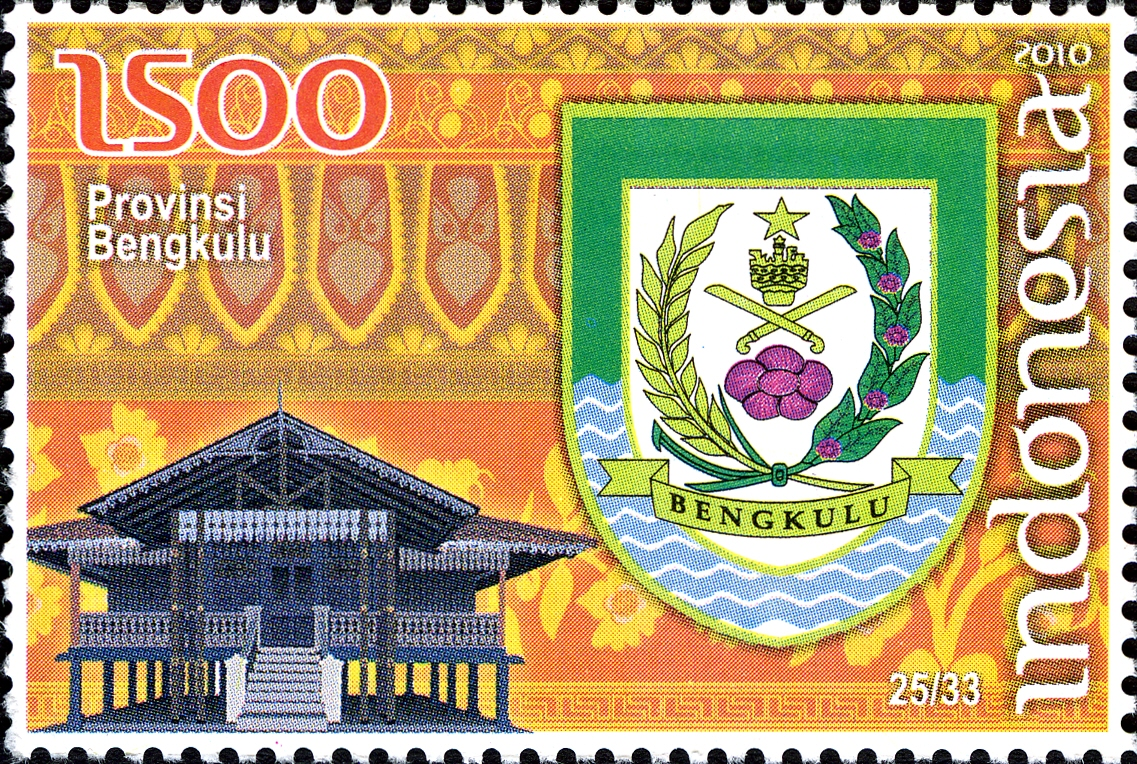 Stamps of Indonesia